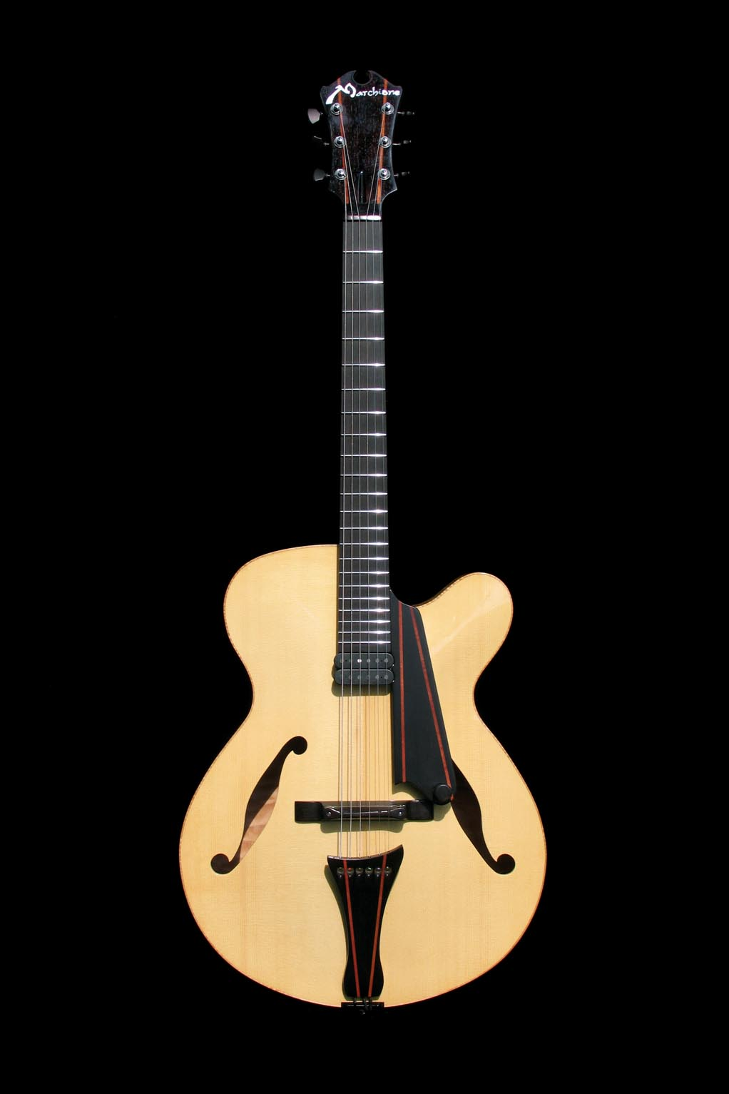 16" Marchione Archtop Guitar